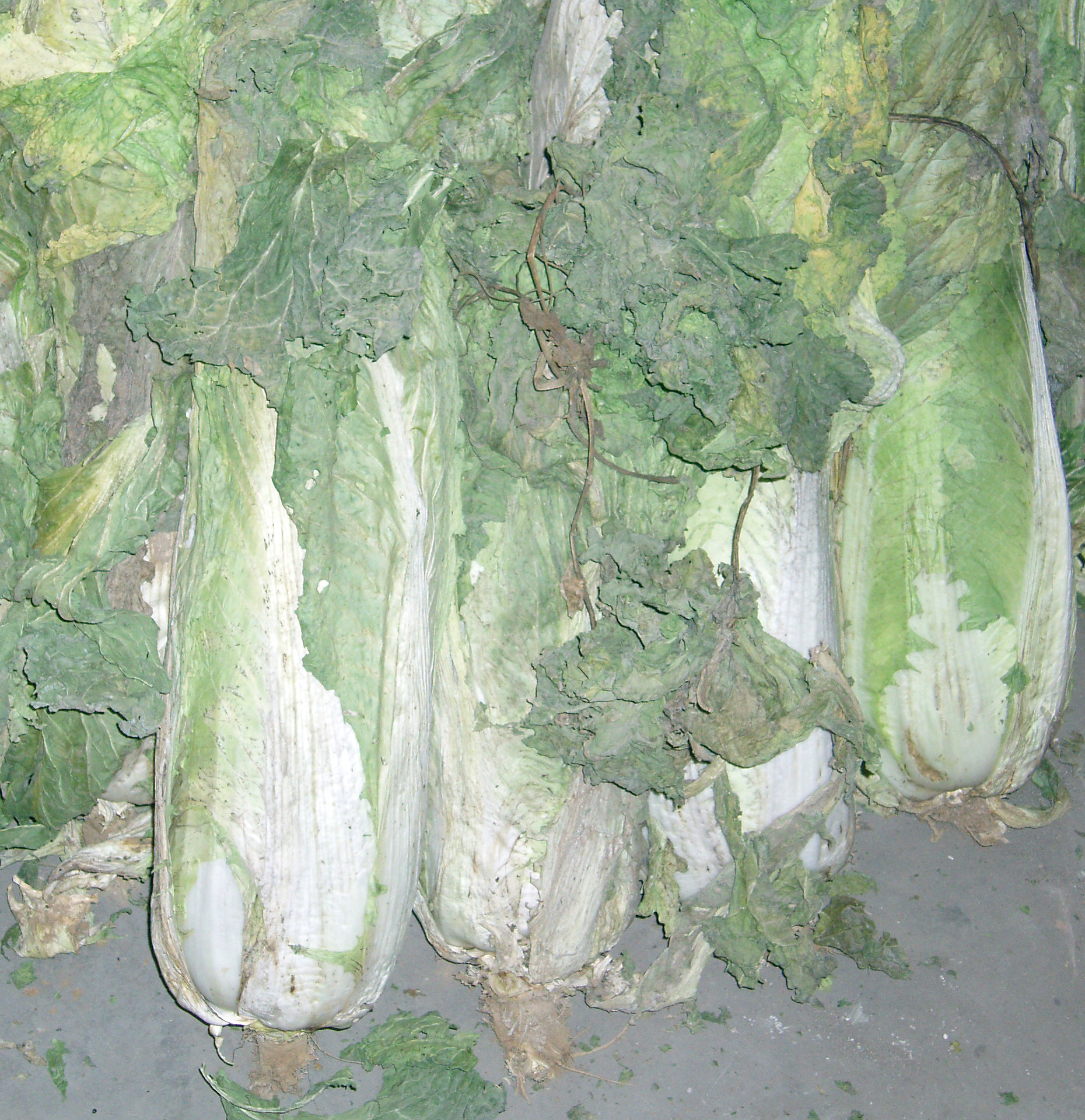 A varity of Chinese cabbage